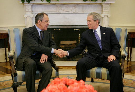 President George W. Bush welcomes Russian Foreign Minister Sergei Lavrov to a meeting in the Oval Office, Tuesday, March 7, 2006, at the White House. White House photo by Paul Morse